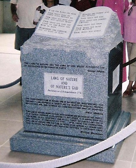 The Ten Commandments monument in the Alabama Supreme Court building